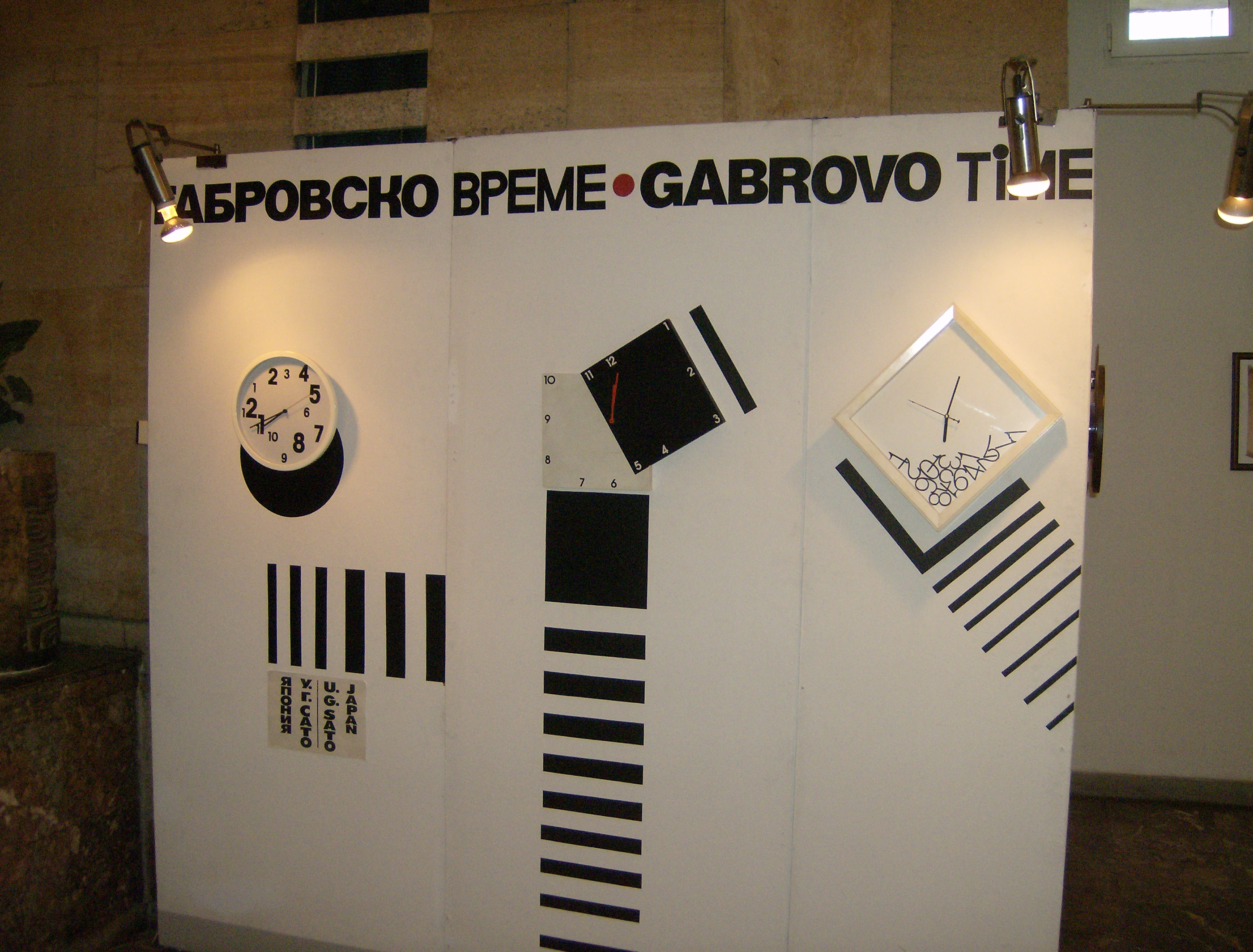 Gabrovo time